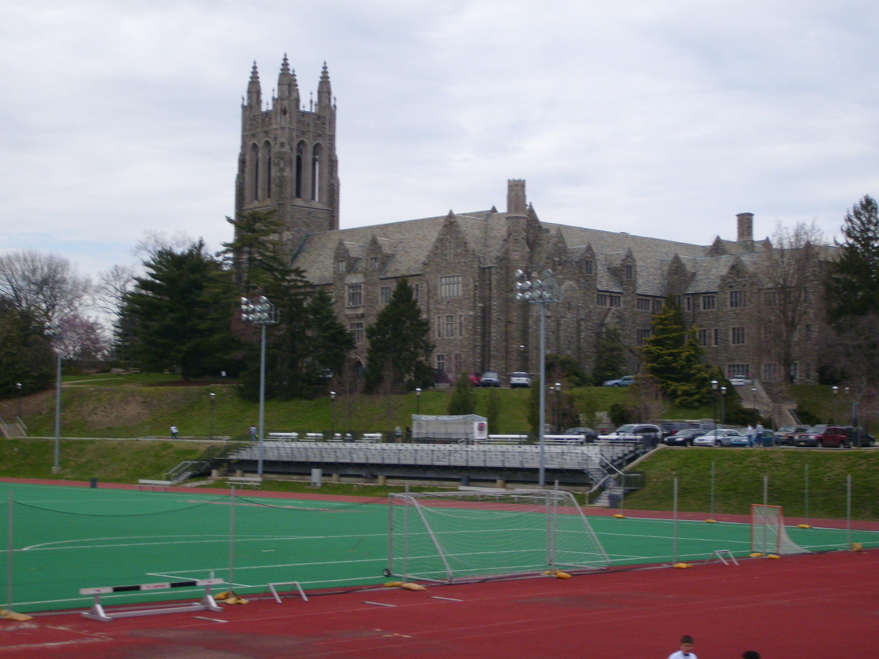 Barbelin Hall at Saint Joseph's University